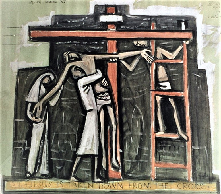 Stations of the Cross by Adam Kossowski. 13th Jesus is taken down from the cross and placed in his mother's arms. This can be seen in the Relic Chapel at The Friars.